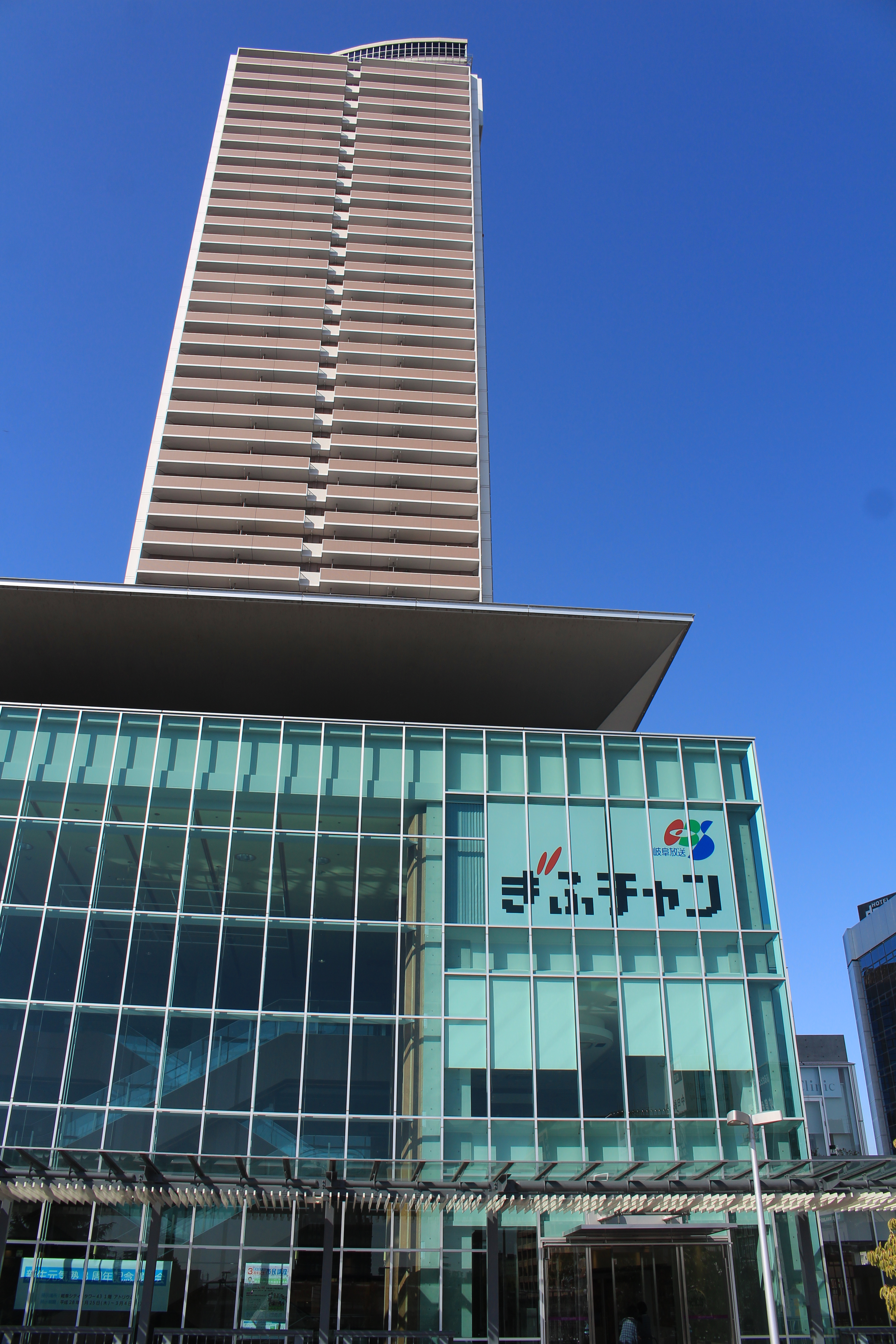 Gifu Broadcasting System in Gifu City Tower 43 in Gifu city, Gifu prefecture, Japan.